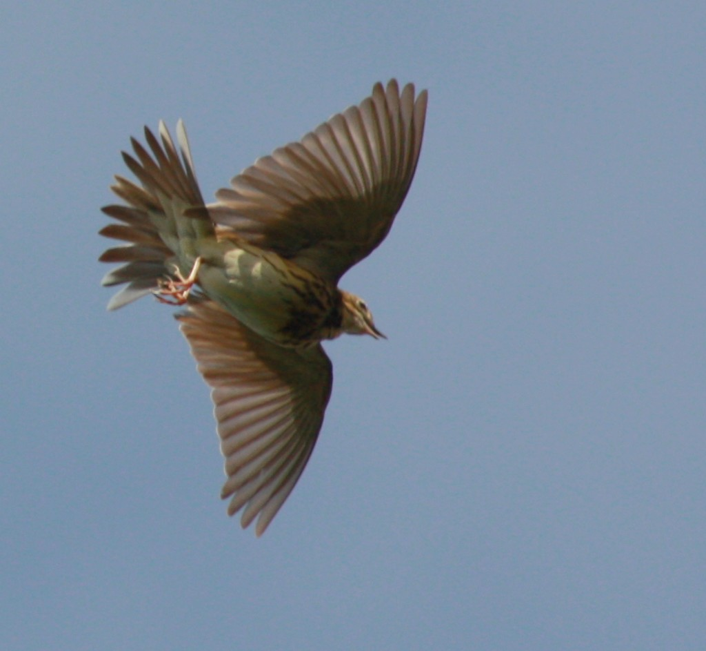 Tree Pipit (Anthus trivialis)